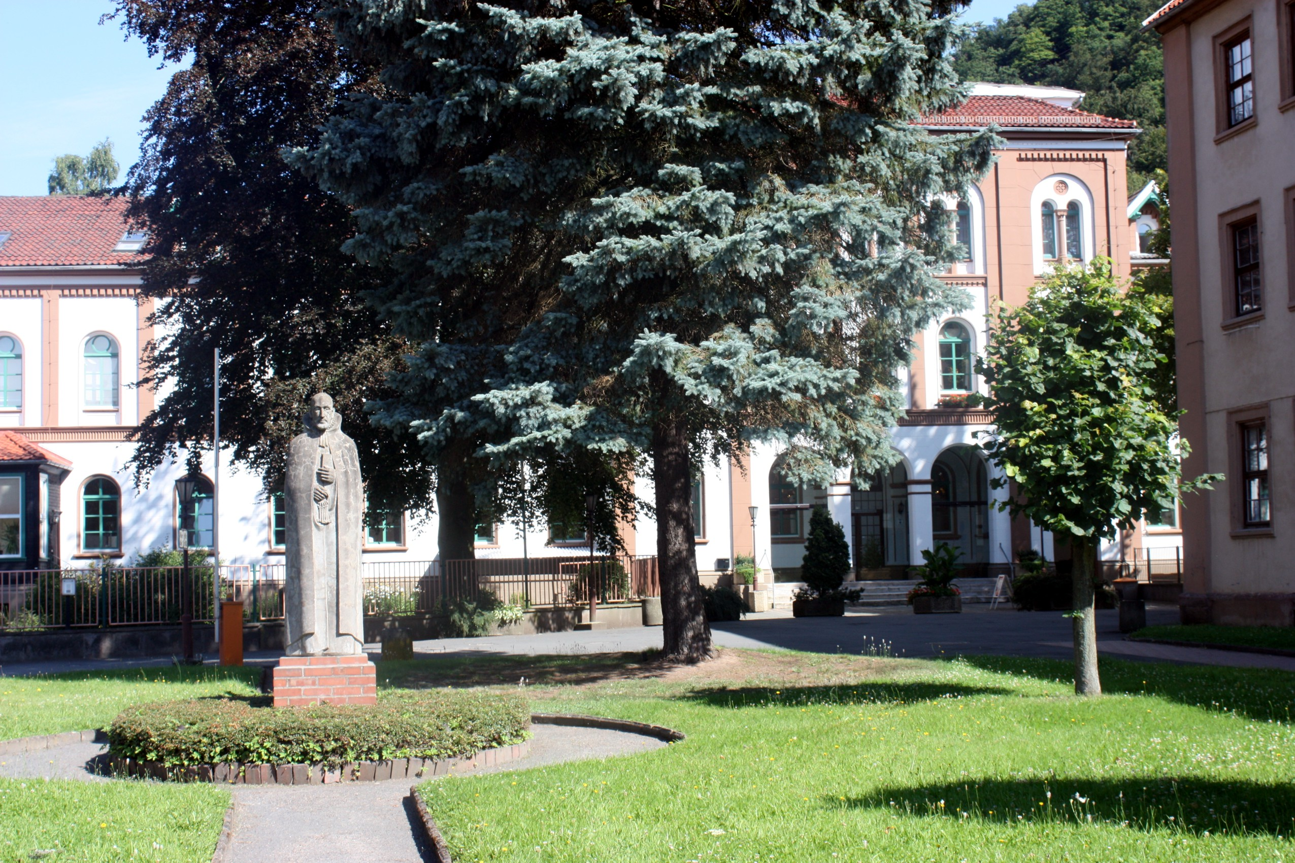 Ilfeld, the Neander Clinic (former monastery)